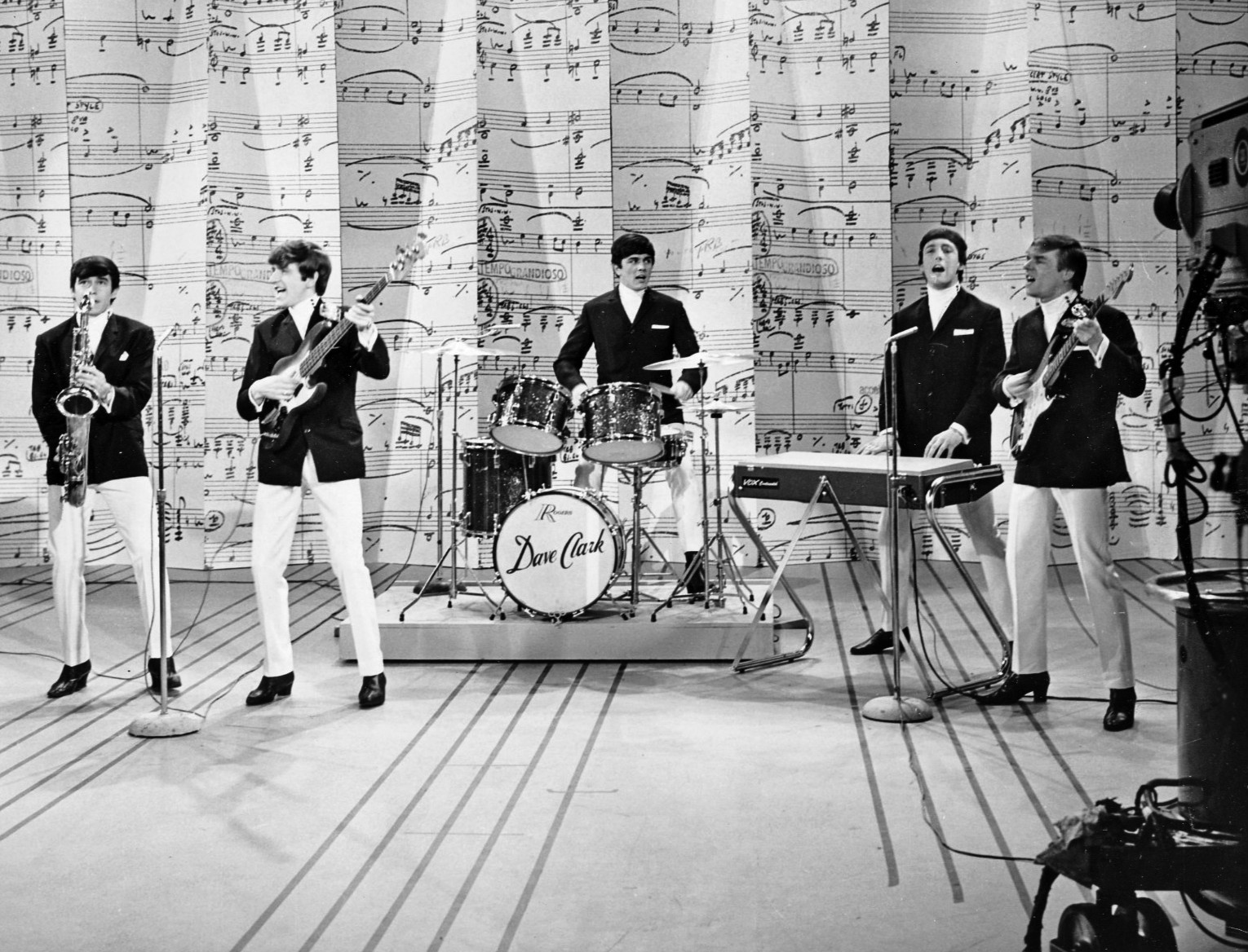 Photo of The Dave Clark Five performing on The Ed Sullivan Show. From left-Denis Payton, Rick Huxley, Dave Clark, Mike Smith and Lenny Davidson.